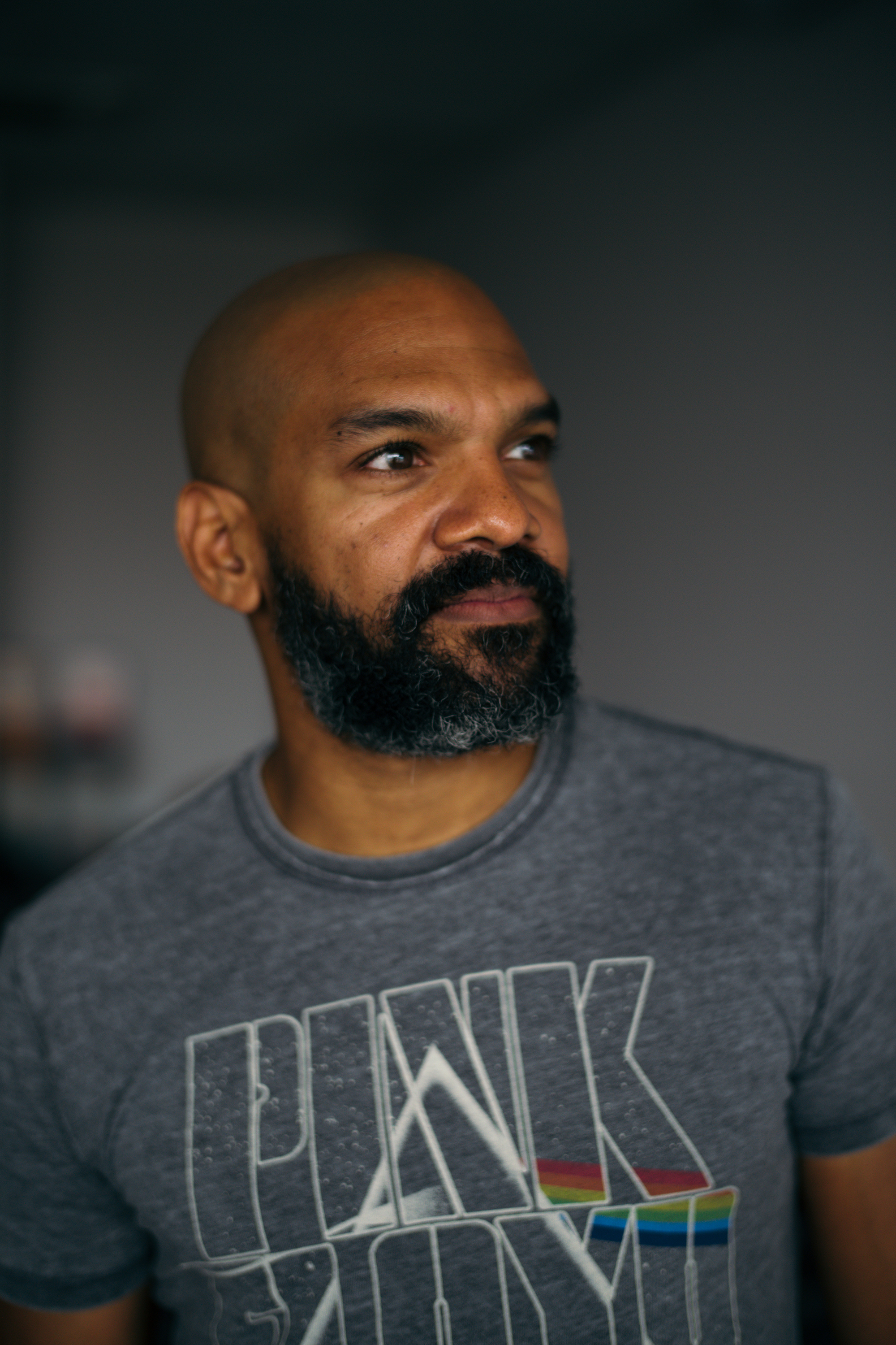 Portrait photograph of Khary Payton taken at MCM Comic Con.